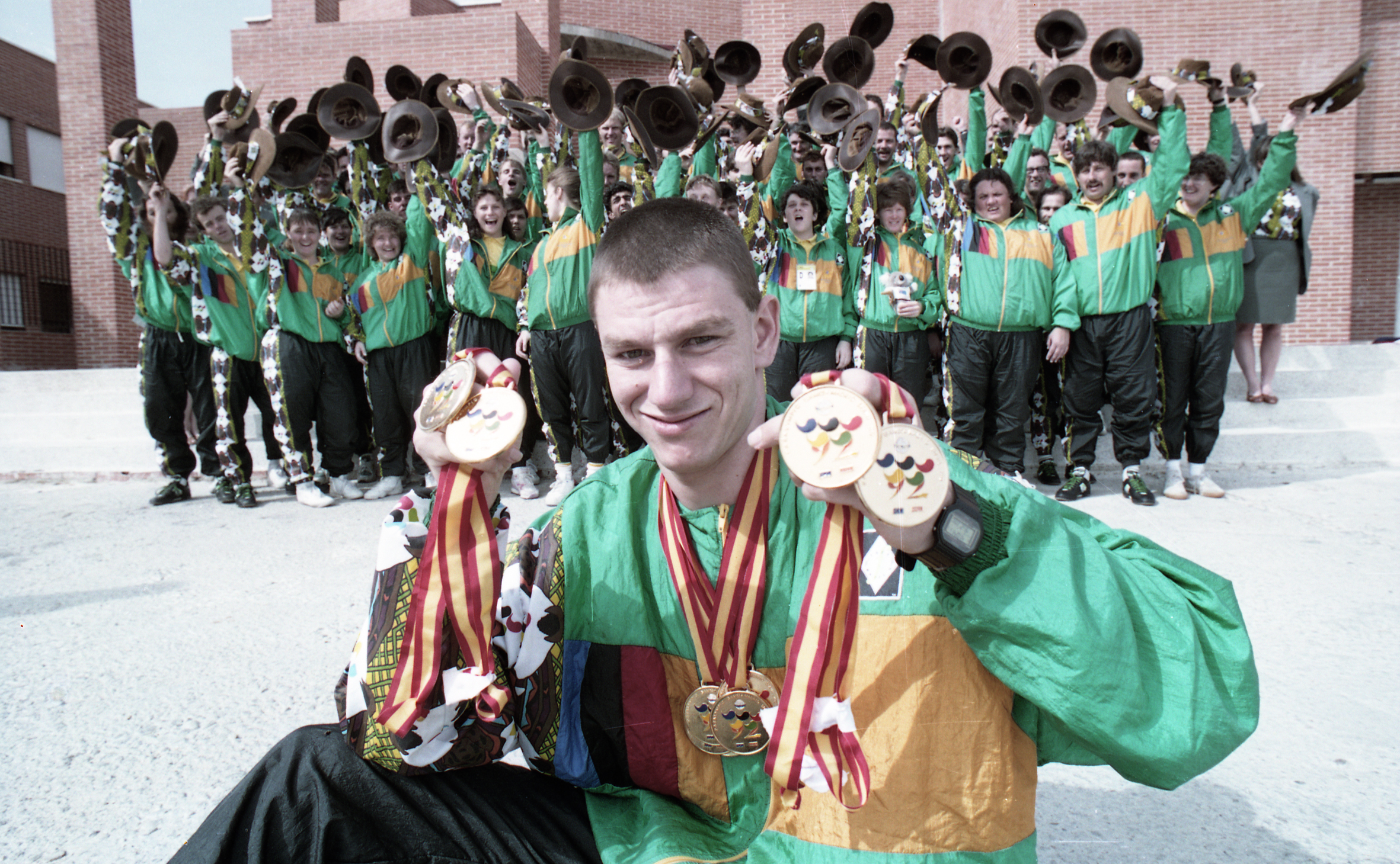 Swimmer Joseph Walker displays the nine gold medals he won as the most successful Australian athlete at the 1992 Madrid "Paralympic Games for Persons with a Mental Handicap.